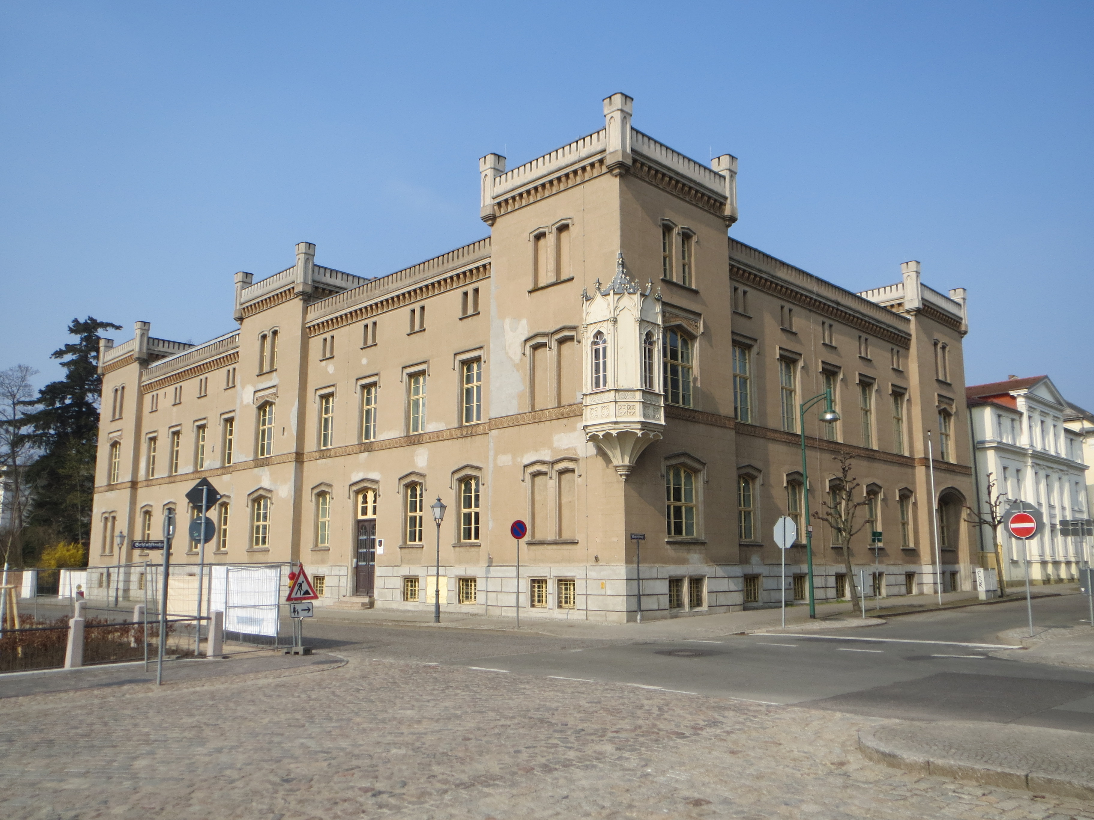 Carolinenpalais Neustrelitz